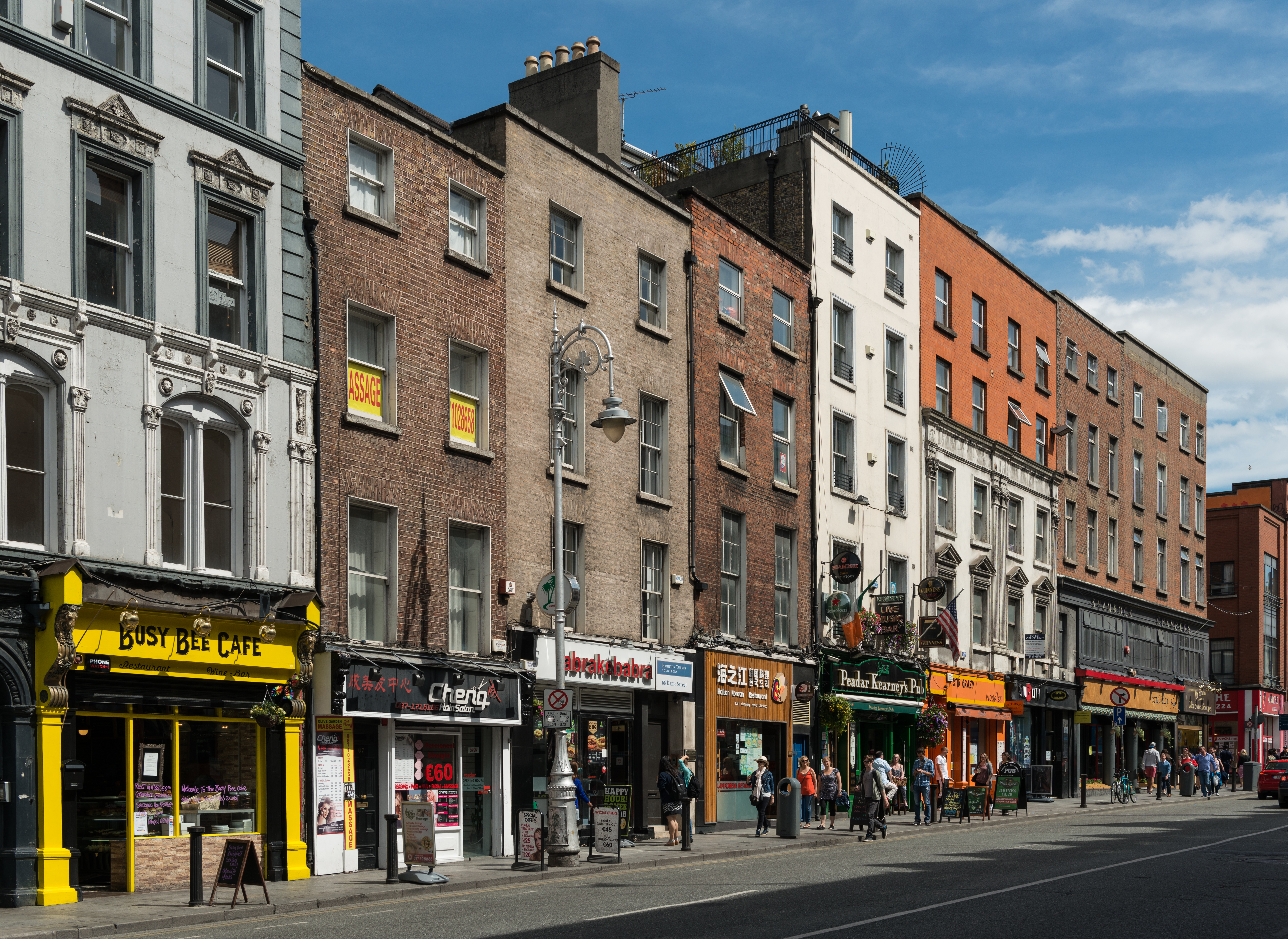 Building on Dame Street, Dublin, located roughly at house number 67